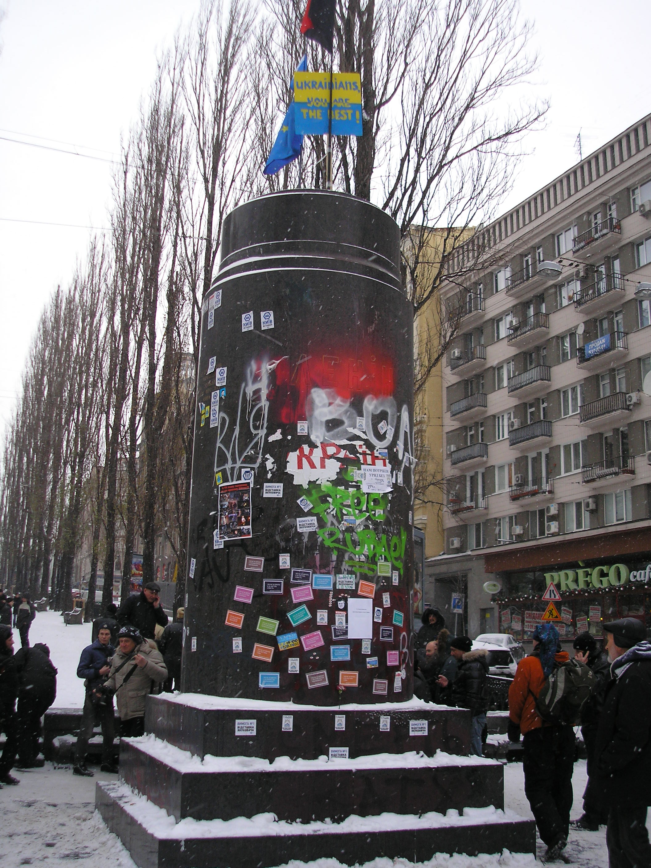 Euromaidan near 13EEST